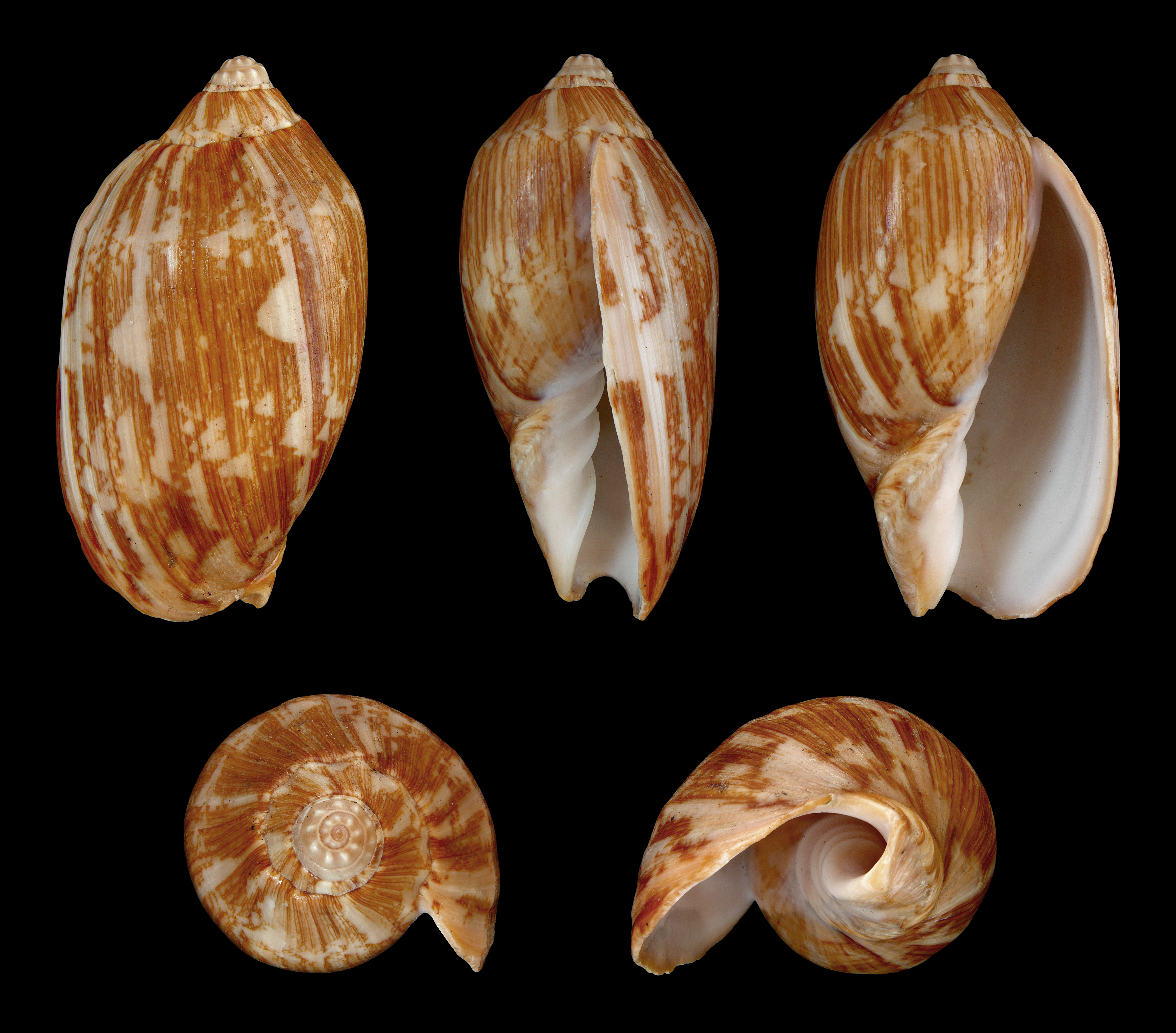 Length 8 cm; Originating from the Philippines; Shell of own collection, therefore not geocoded. Dorsal, lateral (right side), ventral, back, and front view.